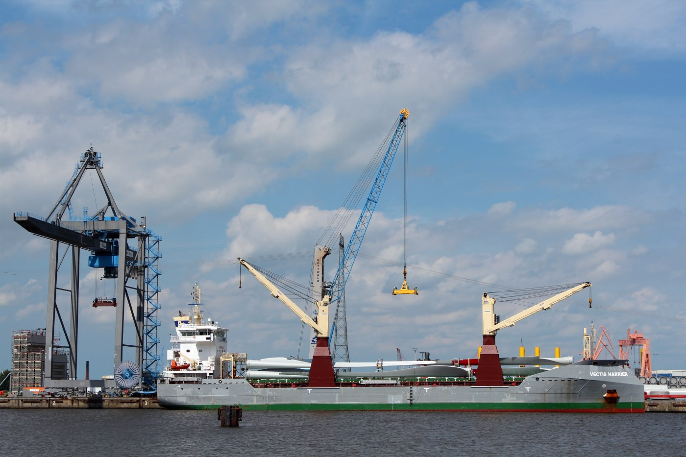 The Groot Super Green 8500 type multi purpose cargo vessel "Vectis Harrier" in the Port of Emden